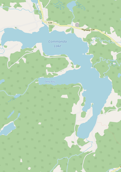 Map of Commanda Lake